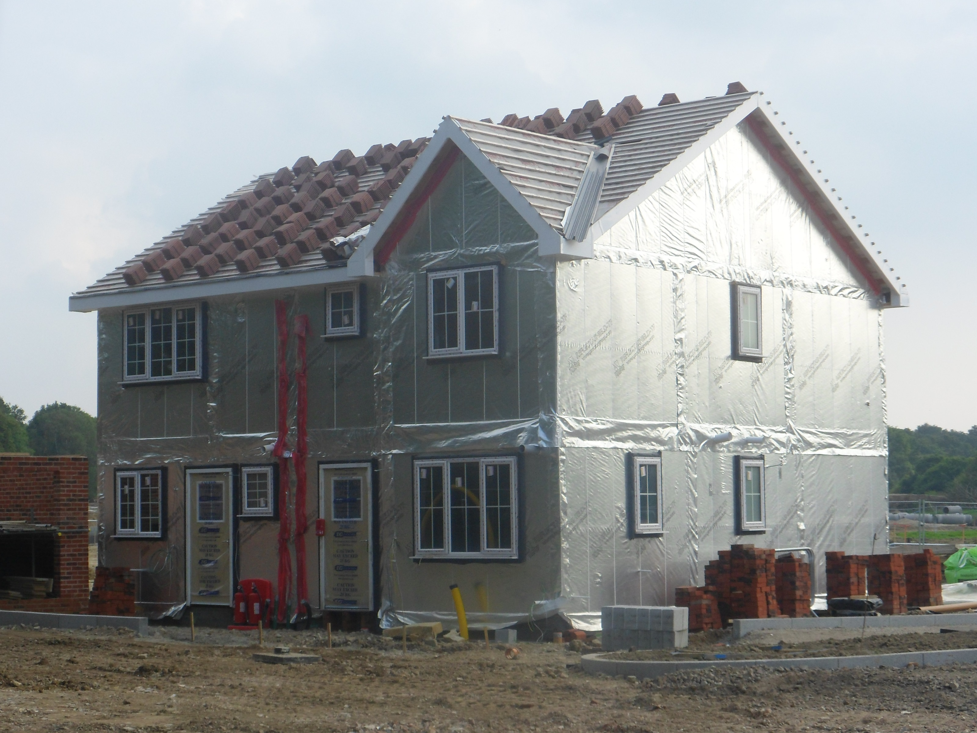 One of a series of photos chronicling the development of Crawley New Town's 14th residential neighbourhood, Forge Wood.The very first house to be built out of a total of 1,900 over the next 12 years. It is seen in a nearly complete state in September 2014.